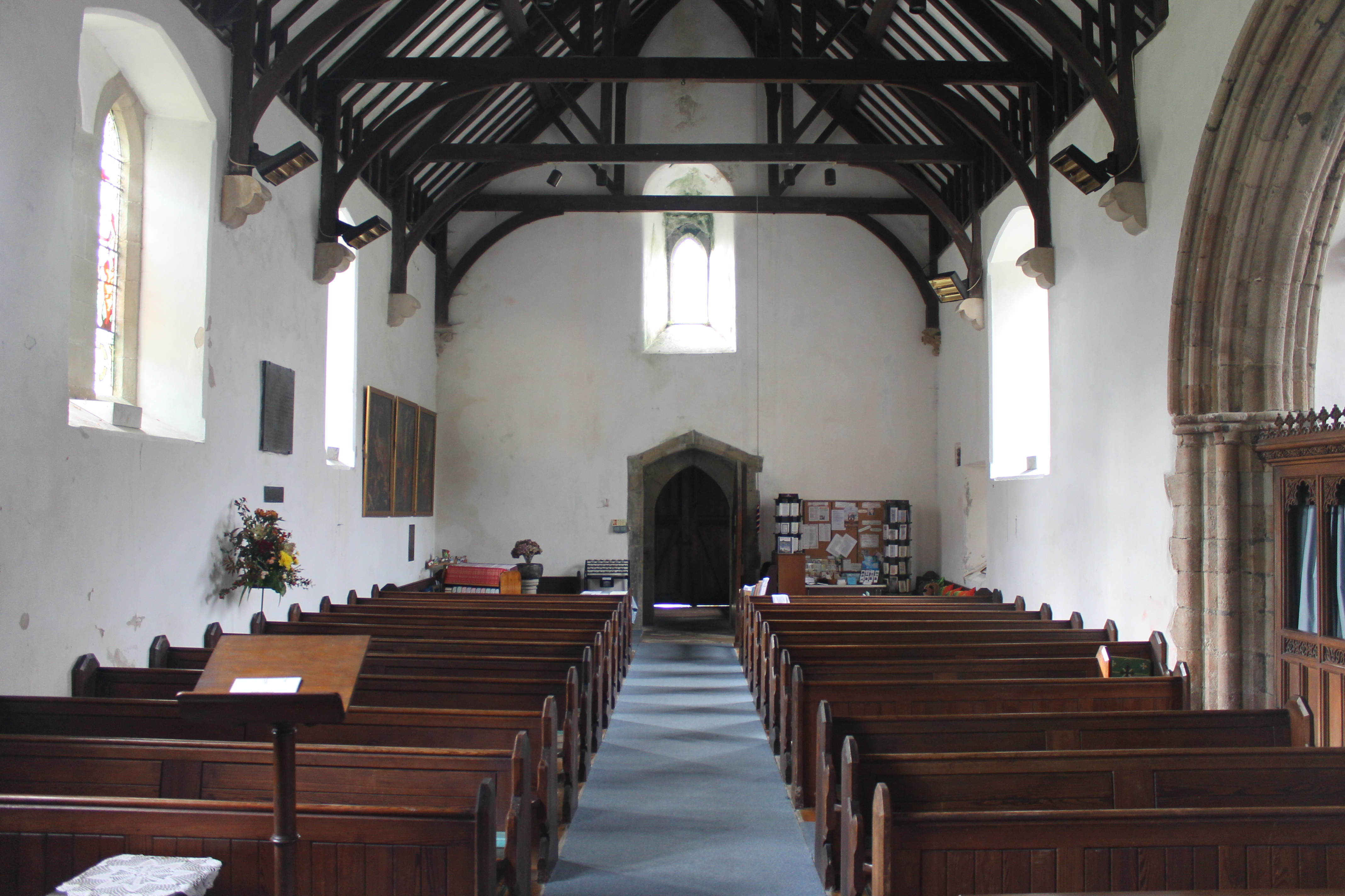 St Mary's Church, Beddgelert, Gwynedd, Wales.